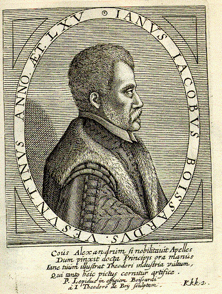 Jean-Jacques Boissard (* 1528, †1602), French Humanist.